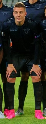 Sergej Milinković-Savić